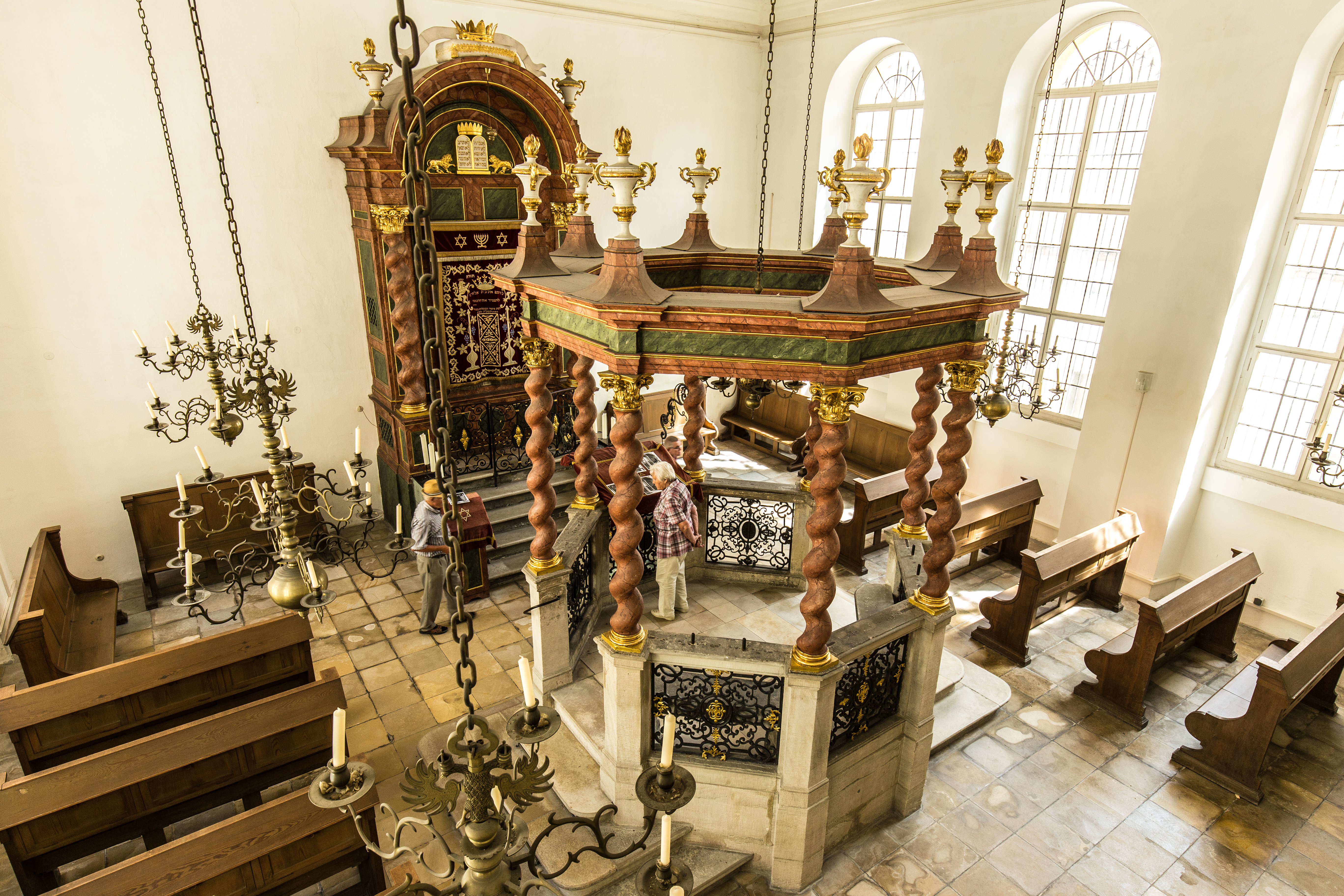 This is a photograph of an architectural monument.